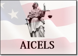 The American Institute for Central European Legal Studies - Logo